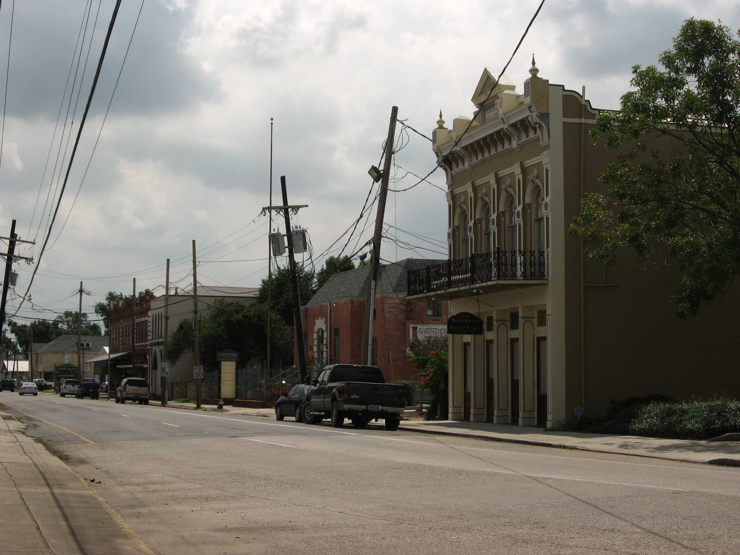 Plaquemine is a city in and the parish seat of Iberville Parish, Louisiana, United States. Street scene, 2009.